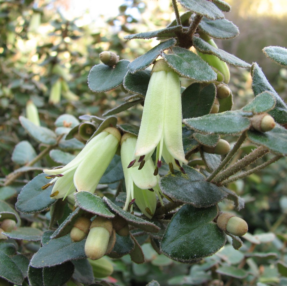 Correa reflexa var. nummulariifolia, Wilson Botanic Park, Berwick, Victoria, Australia